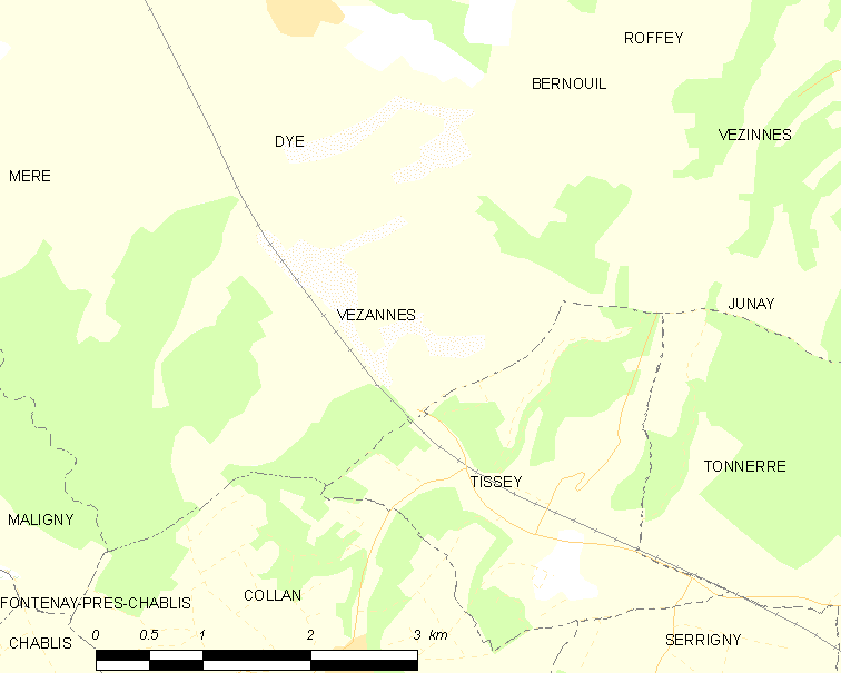 Map of French municipality Vézannes